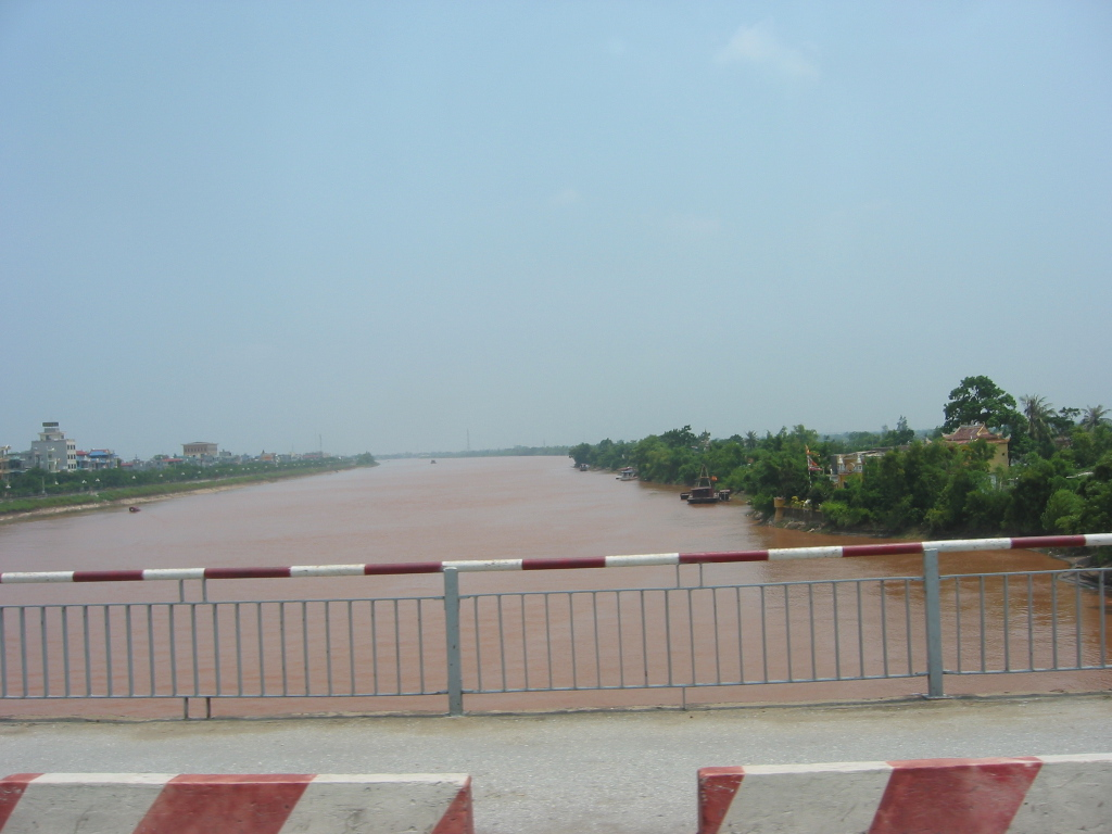 Đào River (Nam Định River) in Nam Dinh province, Viet Nam.